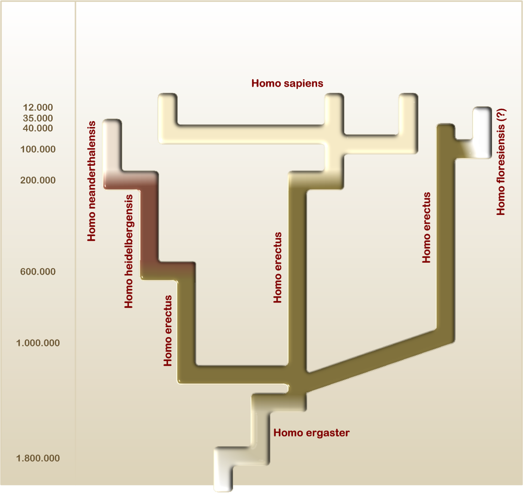 Human evolution - splitter version (the extreme splitter is a seperate file) - master without any language specific additions